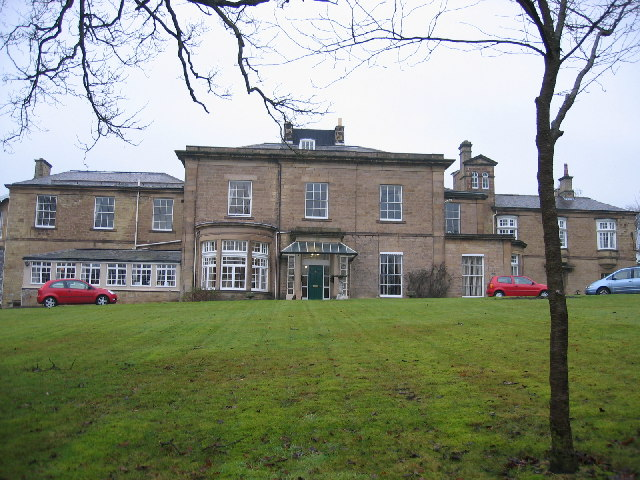 Shotley Park Home. Shotley Park home now used as a carehome for the elderly and located in the main grounds of Shotley Park.